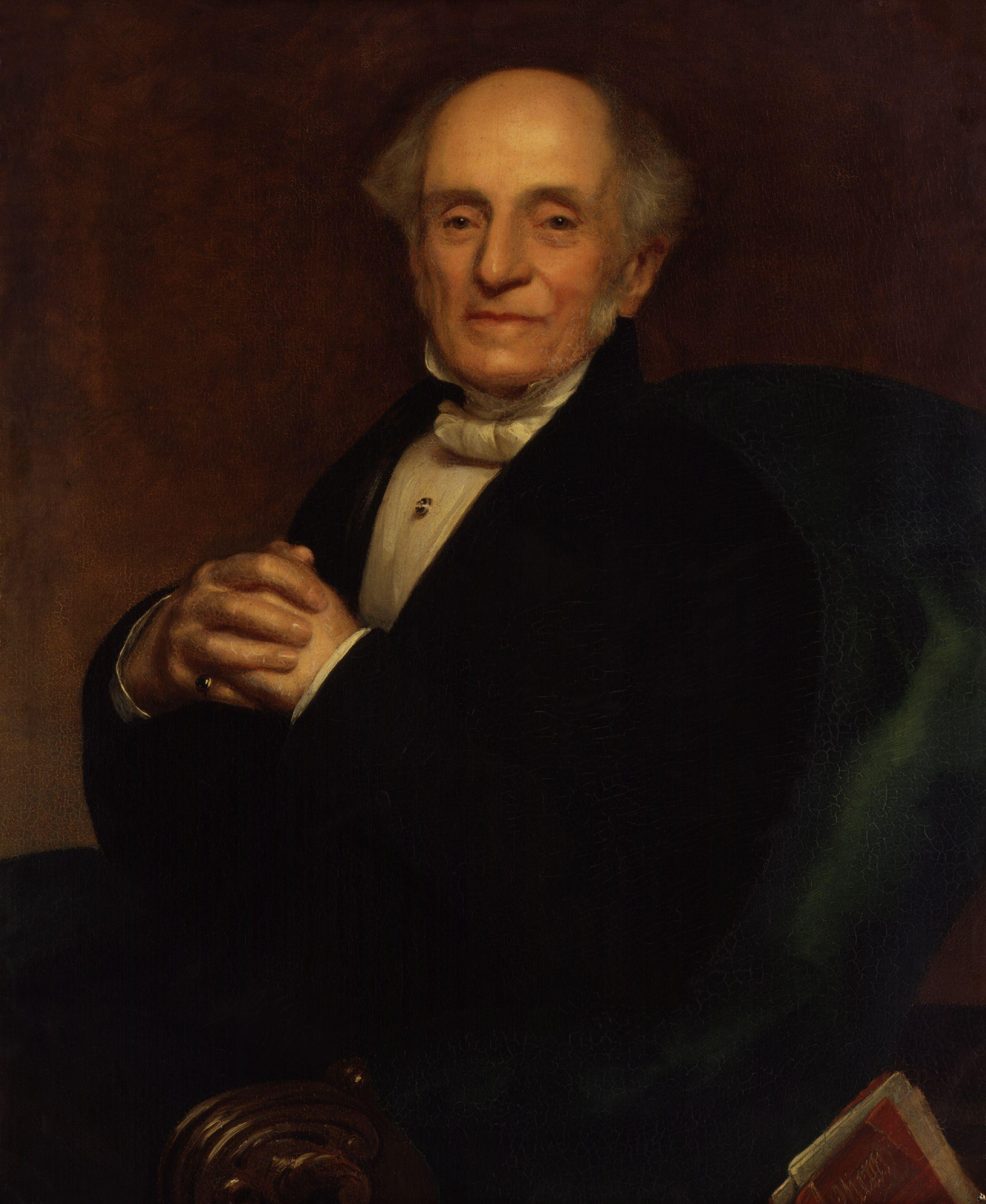 Sir Henry Holland, 1st Bt, by Thomas Brigstocke (died 1881), given to the National Portrait Gallery, London in 1912. All images in this batch have been confirmed as author died before 1939 according to the official death date listed by the NPG.